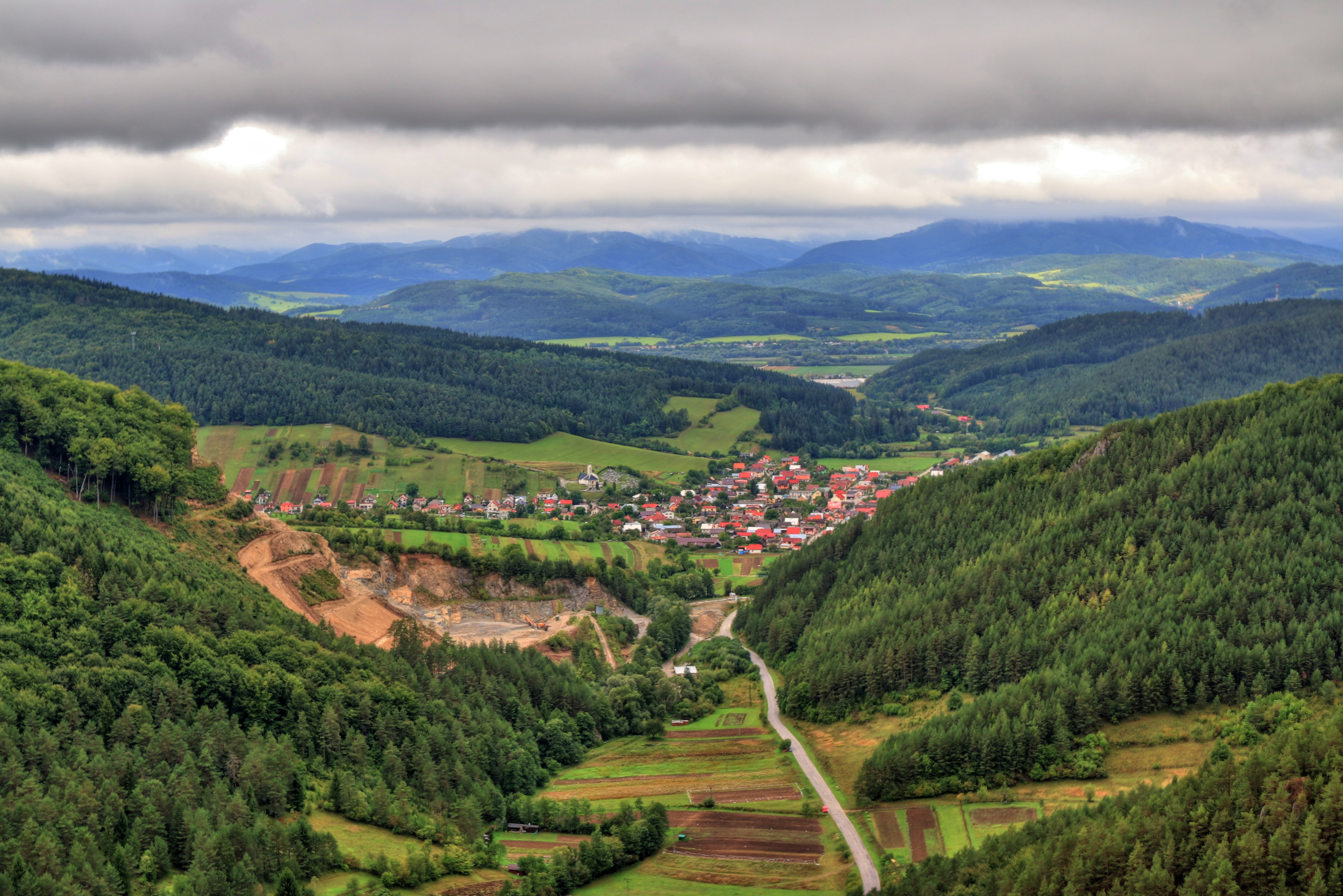 Tone-mapped HDR image of Jablonové vilage (district of Bytča).